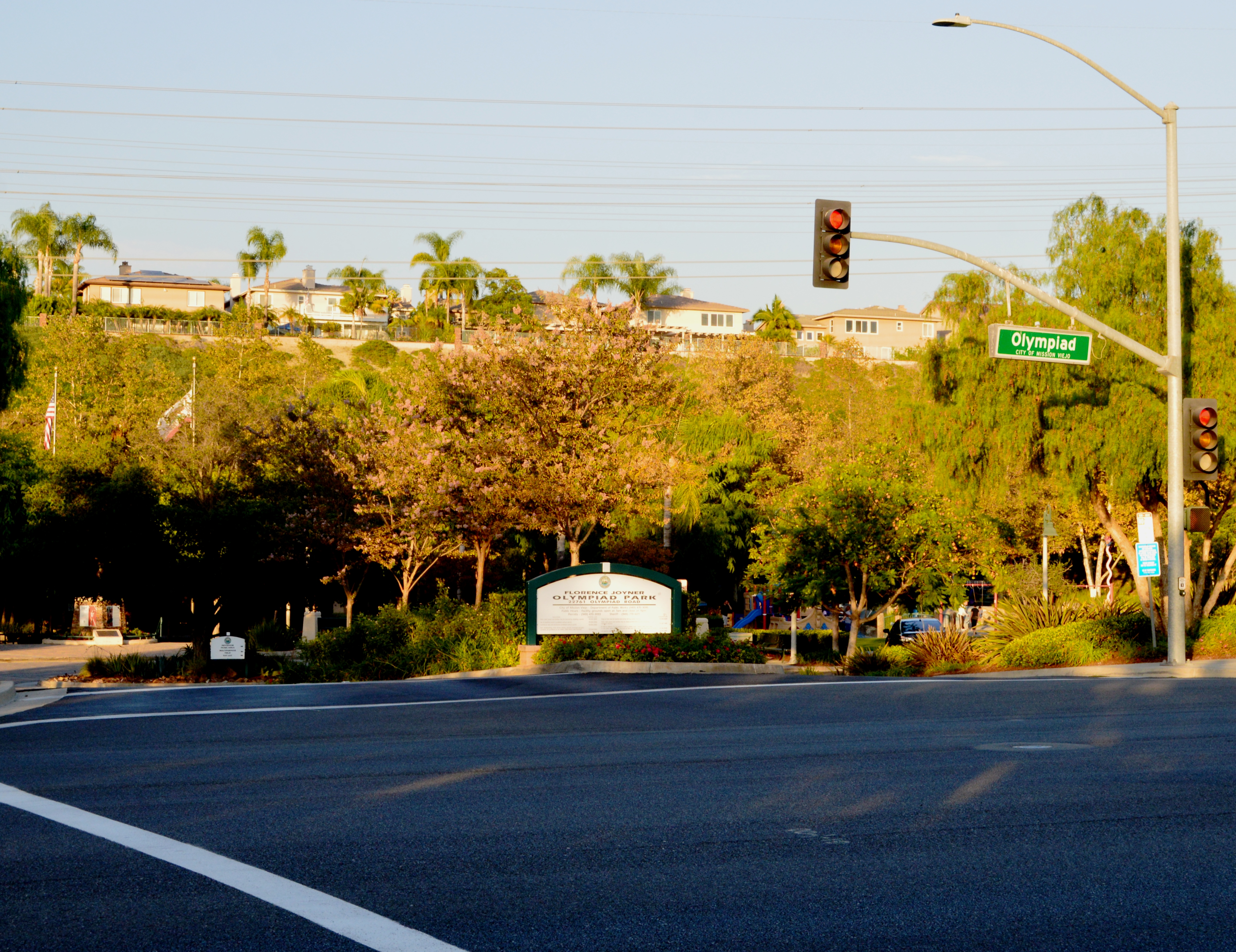 Olympiad Road entrance to Florence Joyner Olympiad Park, with Canyon Crest homes in the background - Mission Viejo, Orange County, California.